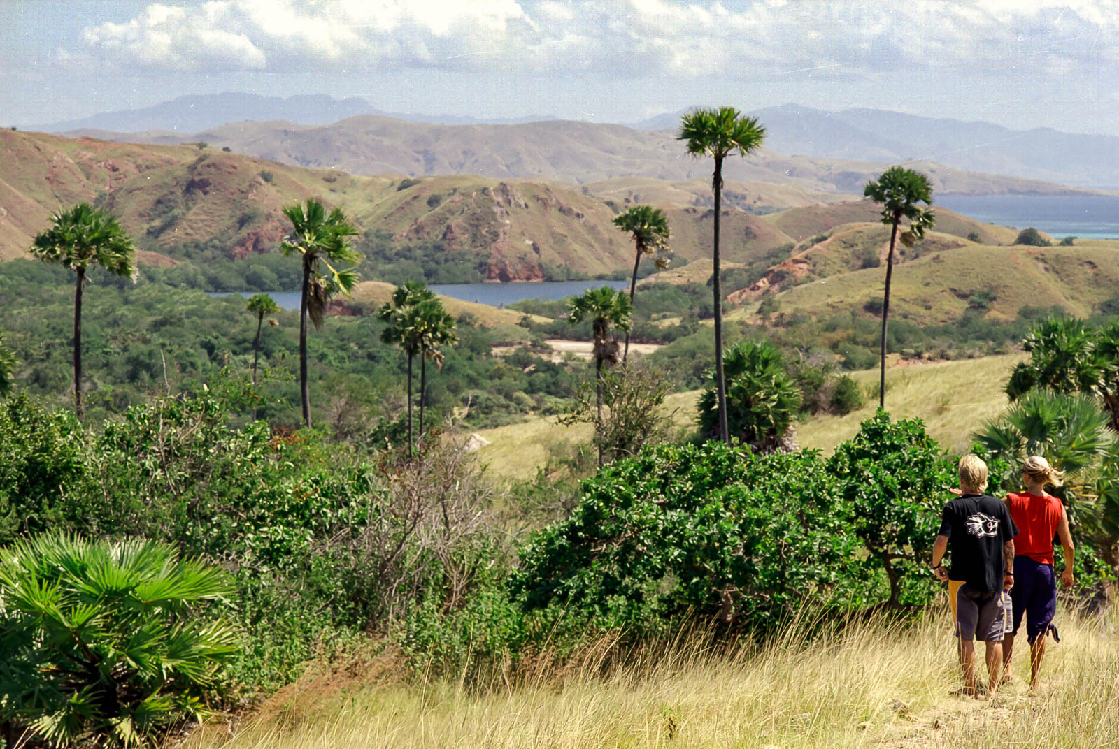 View of Rinca Island